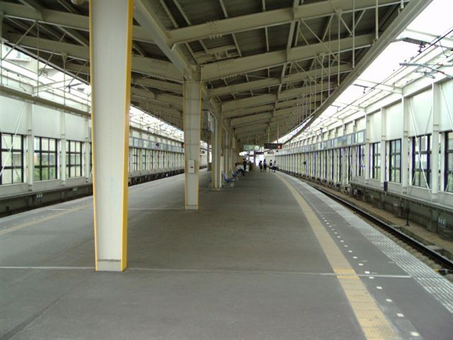 Station Home of Ikeda Station(Photograpy:Nozomikobe/10 Jun,2006)